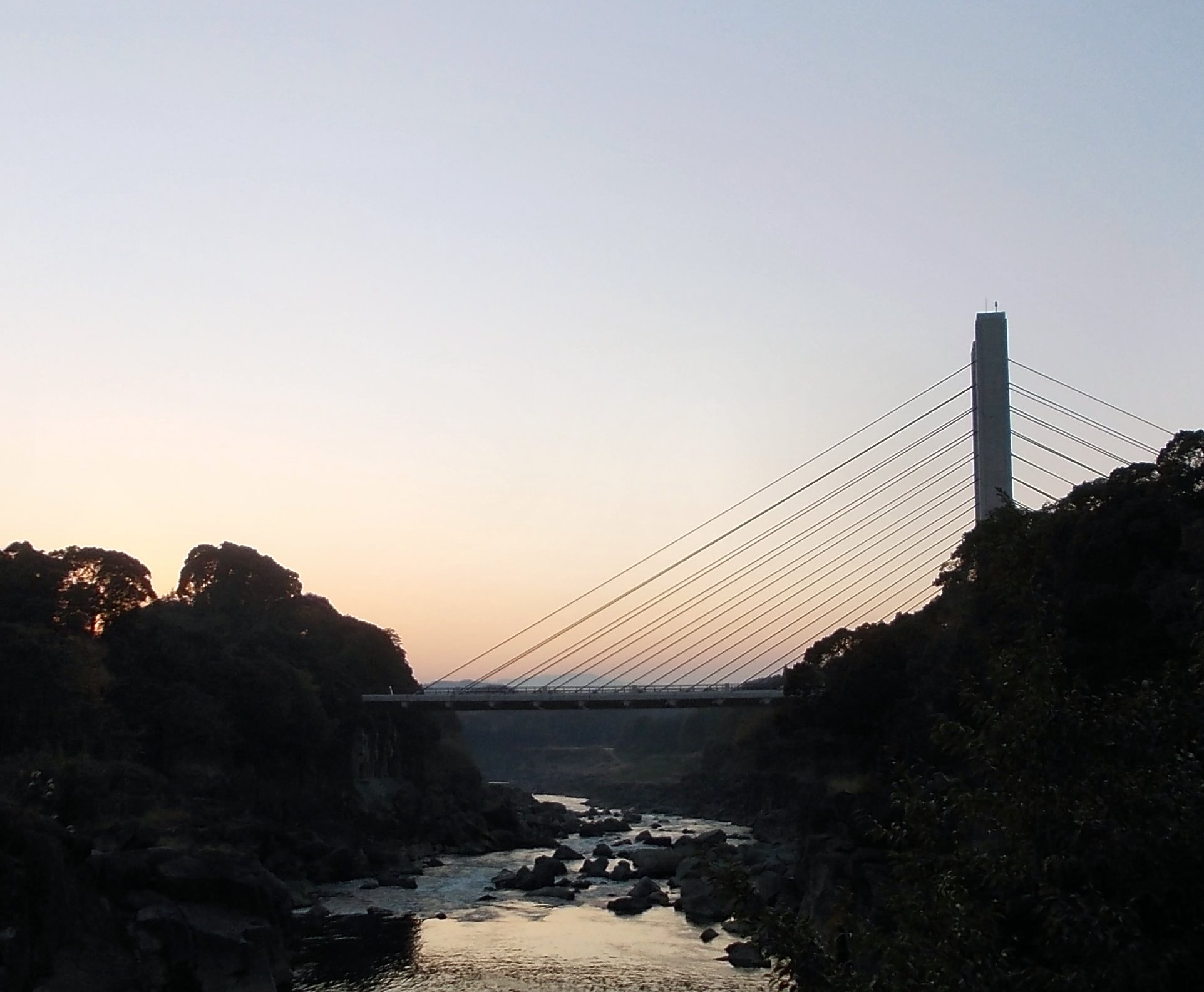 New Sogi Bridge, which spanned in the downstream of Sendai River, is located in Sogi Fall, Isa, Kagoshima, Japan. It was completed on 05 November 2011 in order to replace the Old Sogi Bridge.